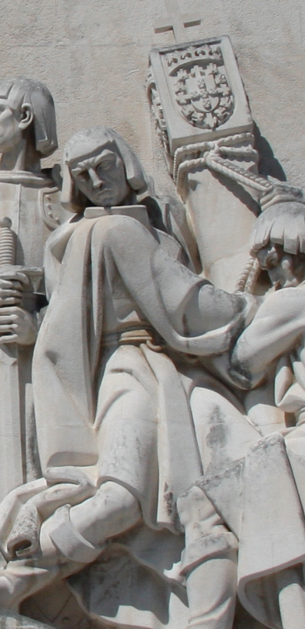 Effigy of Bartolomeu Dias (1450-1500), Portuguese navigator, in the Padrão dos Descobrimentos (Monument to the Discoveries), in Lisbon, Portugal.